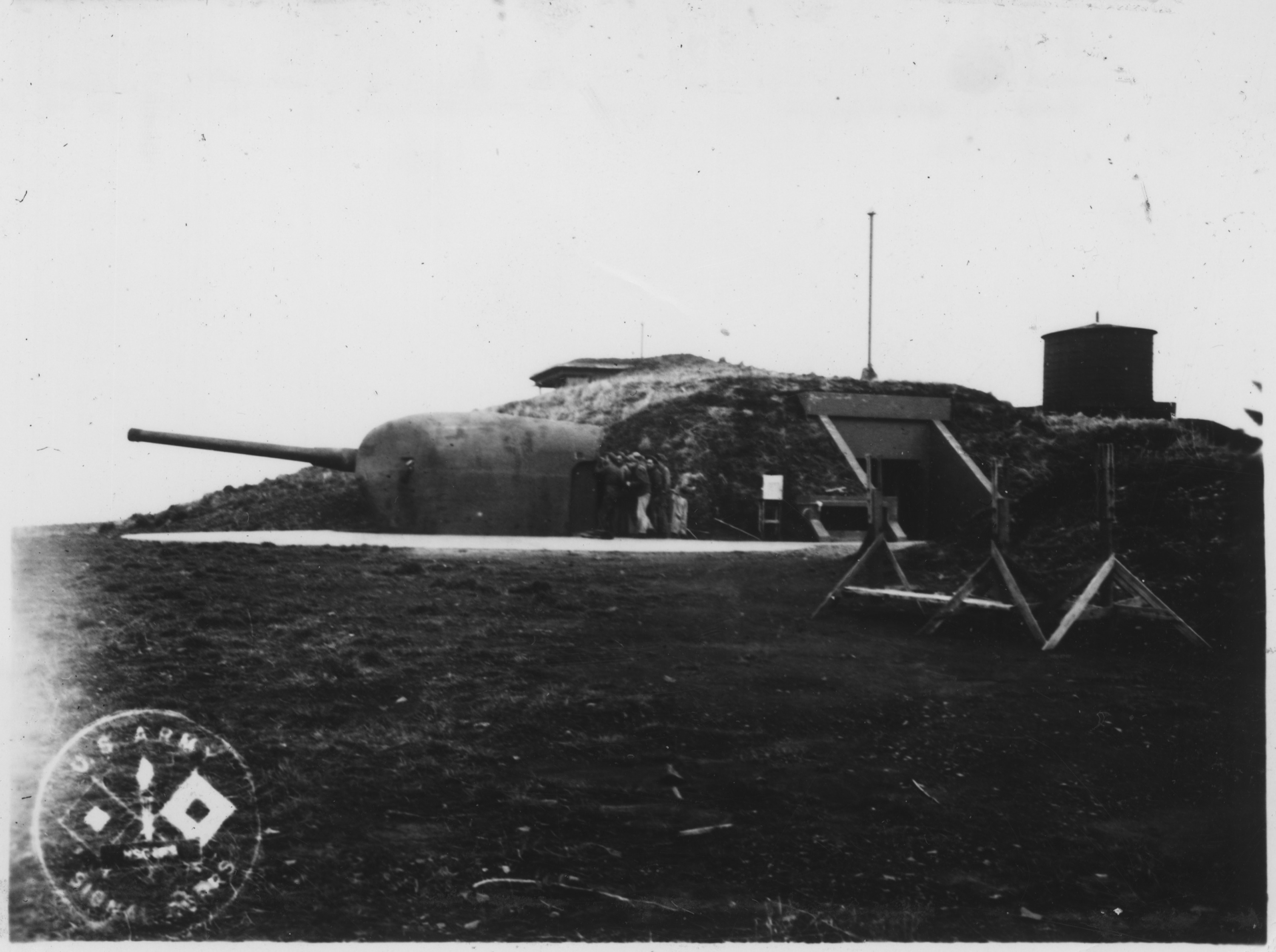 Scope and content: Beginning with the Civil War, the U.S. Army recognized a need to provide for coastal defenses in the Pacific NW along the Columbia River and in the Puget Sound. A number of forts, many no longer in service, were built for this purpose.